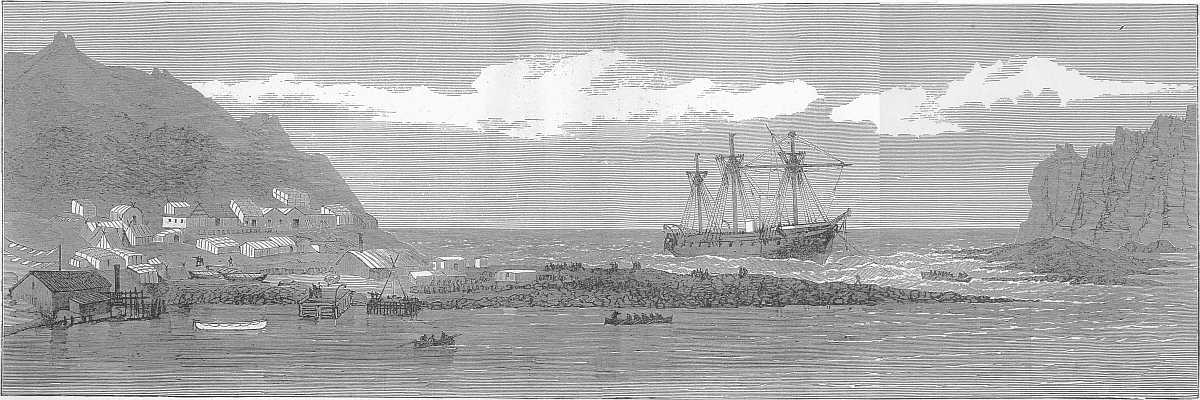 HMS Megaera at St. Paul Island, prior to her beaching